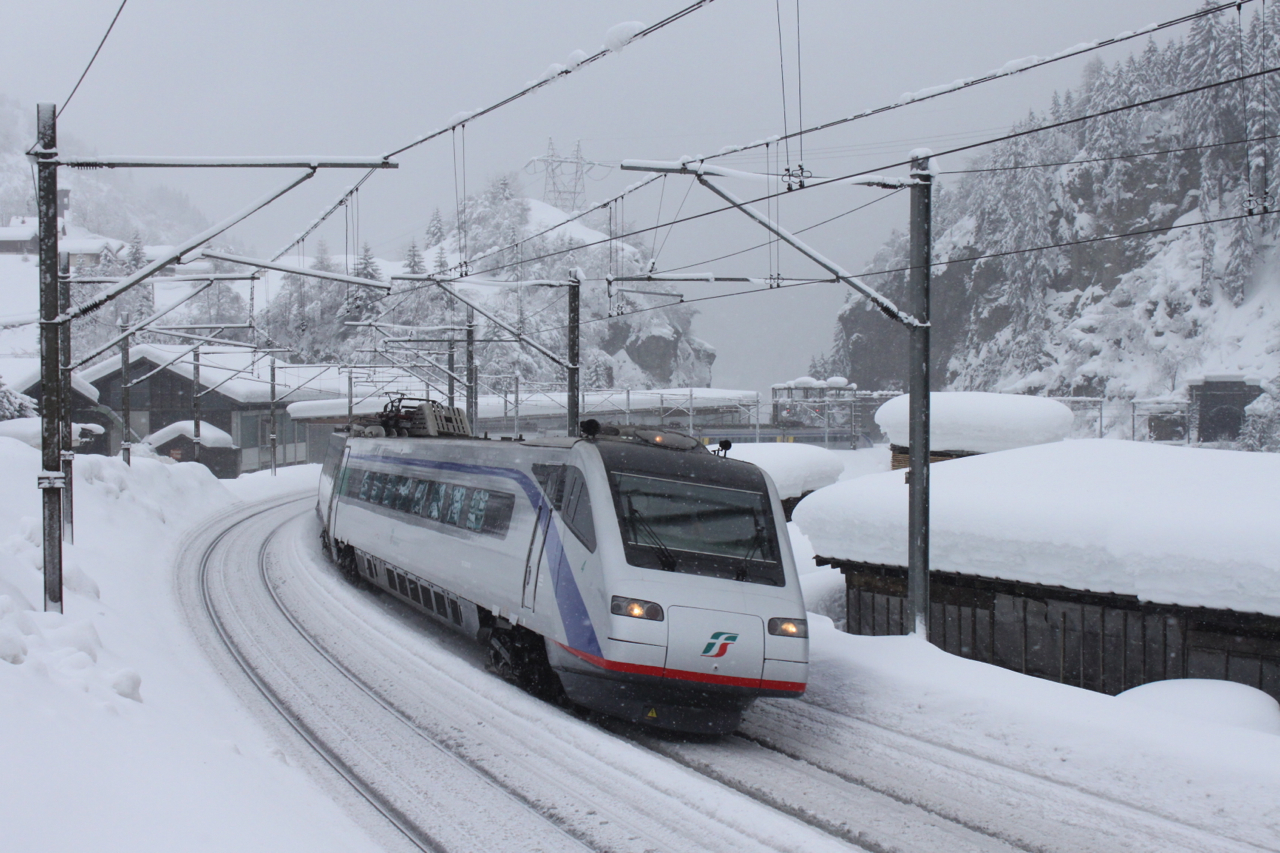 FS ETR 470 004 running from Milano C.le to Zürich HB as EuroCity 12 at Airolo.